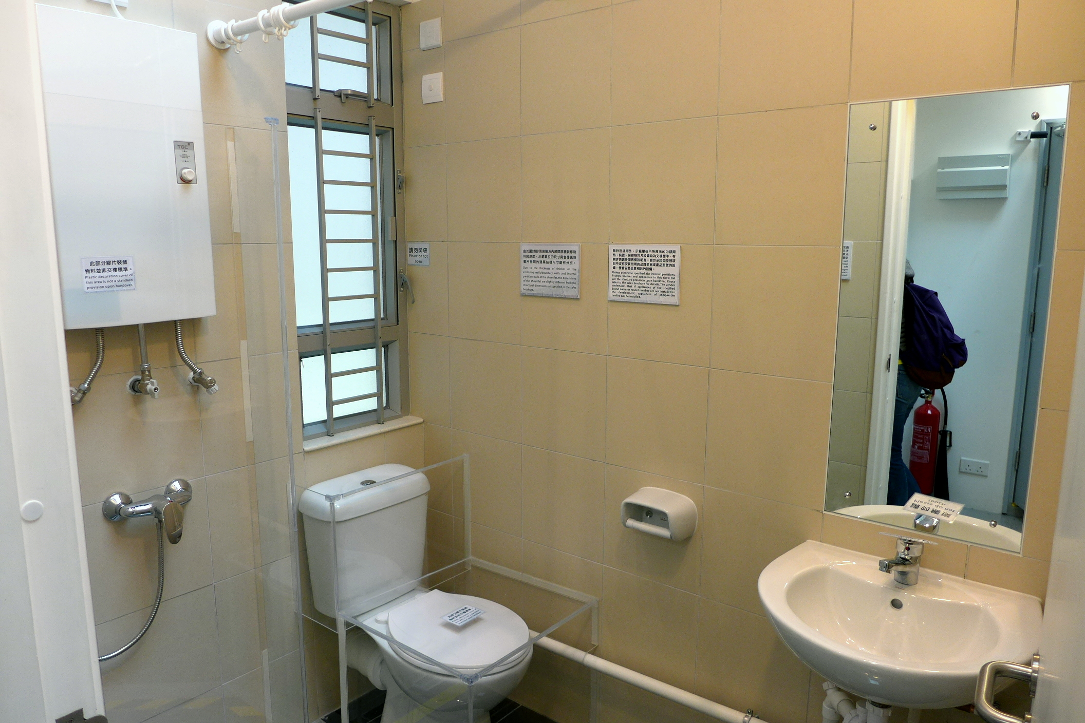 Home Ownership Scheme 2014 Showflat Bathroom